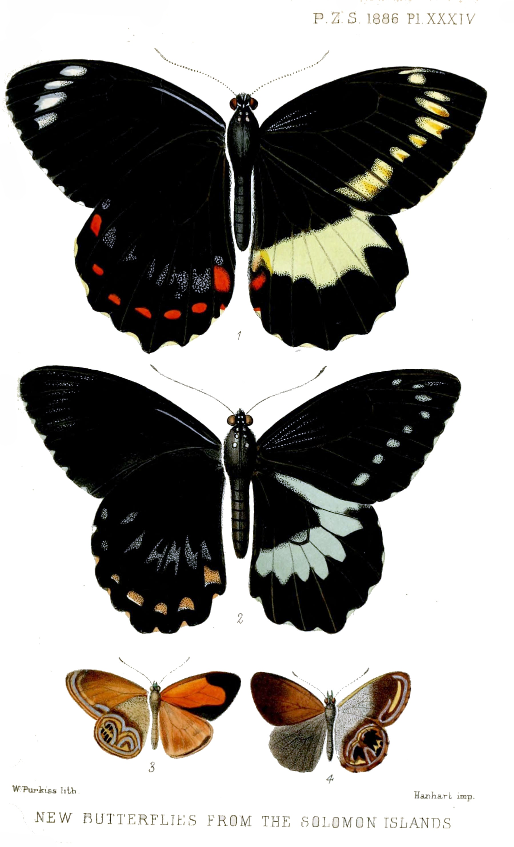 "New butterflies from the Solomon Islands"